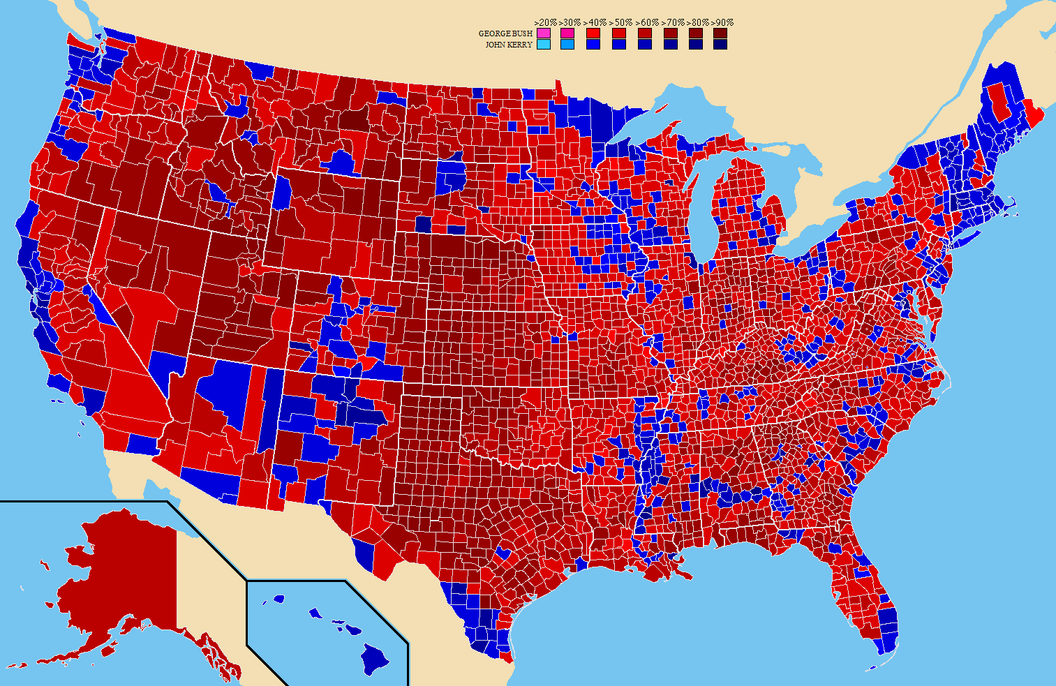 This map shows the vote in the 2004 presidential election by county. All major Republican geographic constituencies are visible: red dominates the map, showing Republican strength in the rural areas, while the denser areas (i.e., cities) are blue. Notable exceptions include the Pacific coast, New England, the Black Belt, areas with high Native American populations, and the heavily Hispanic parts of the Southwest.